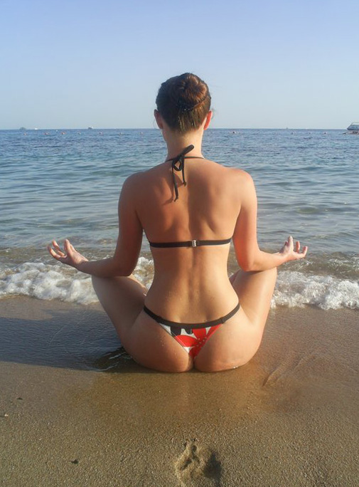 Pavlina tries to calm at next to waves, yoga at the beach.